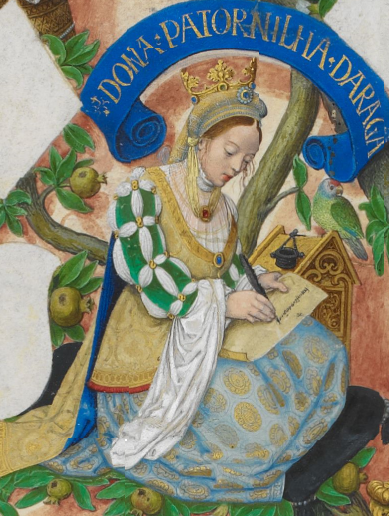 Queen Petronilla I of Aragon